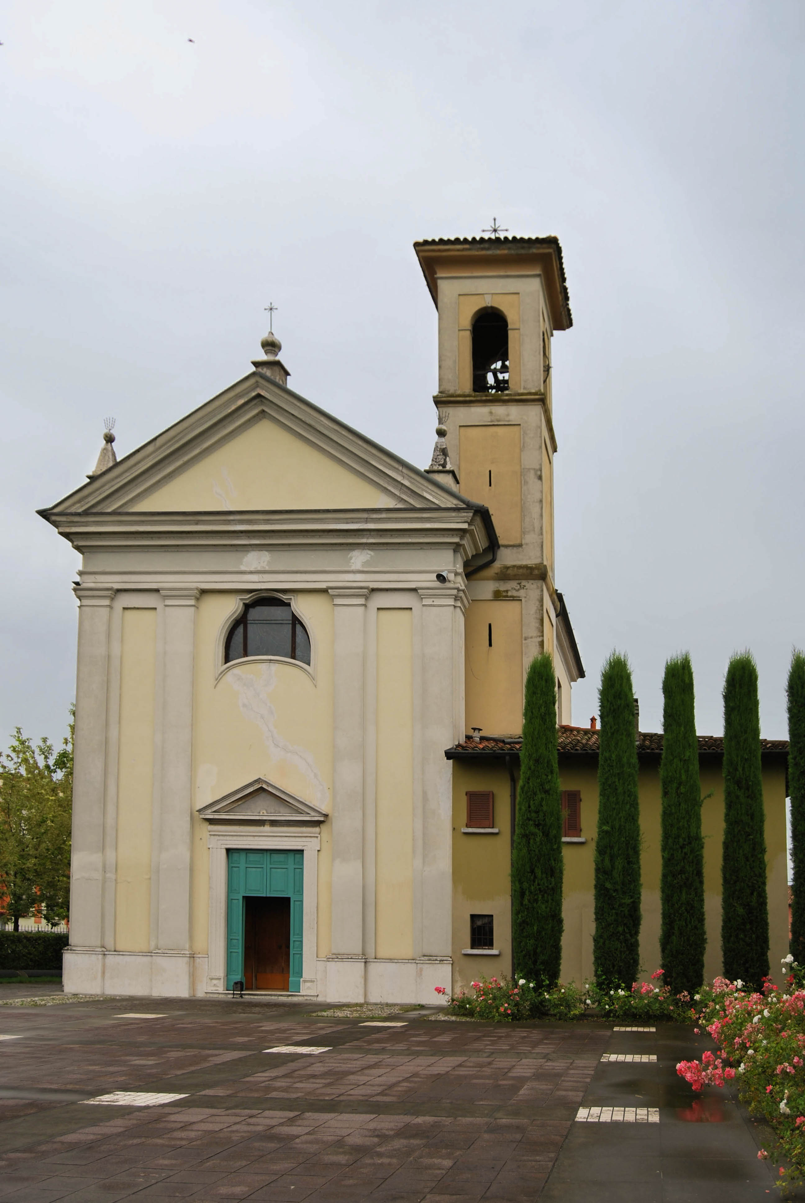 Madonnina del boschetto, facade with church square